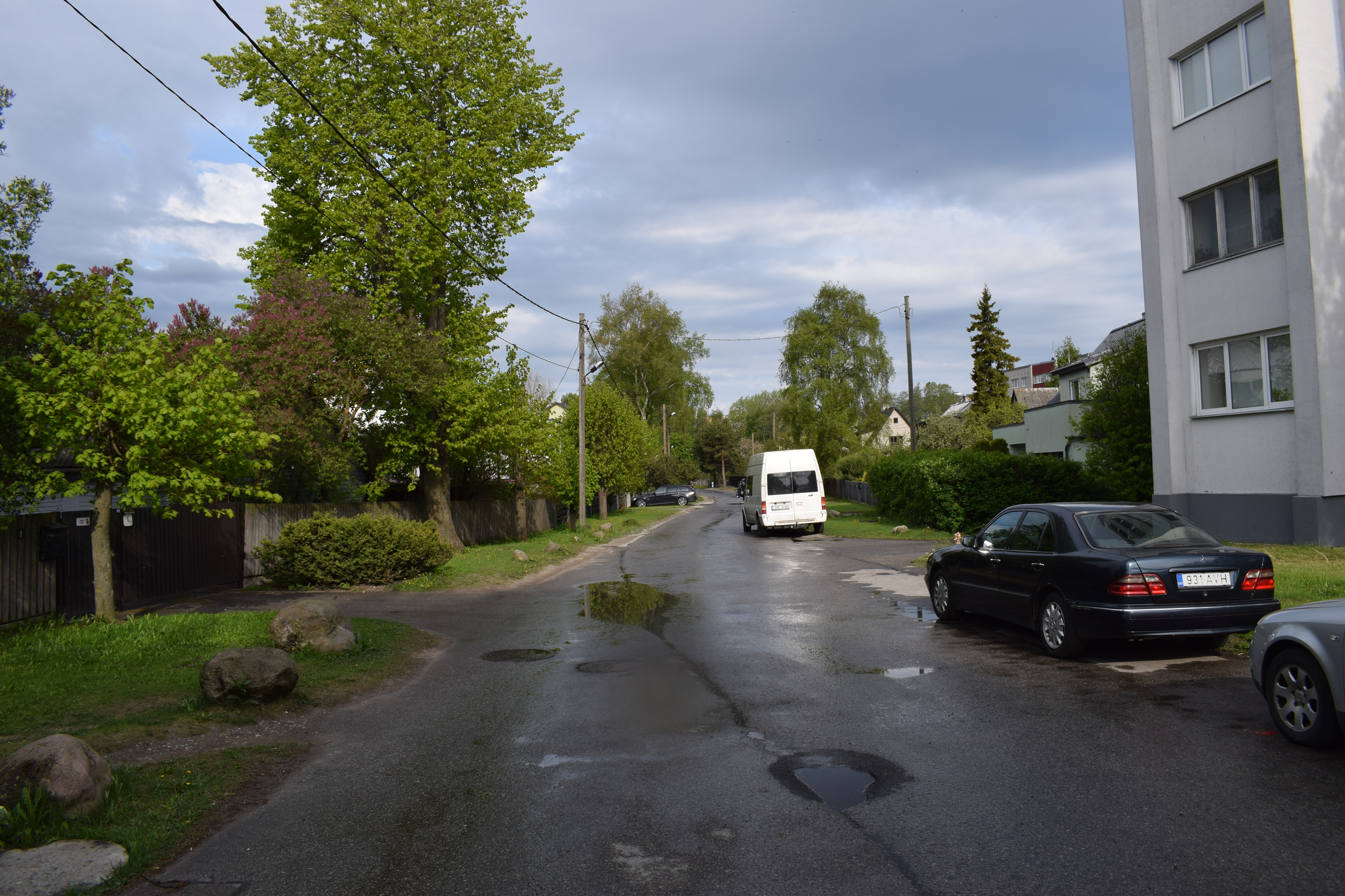 Rõika street